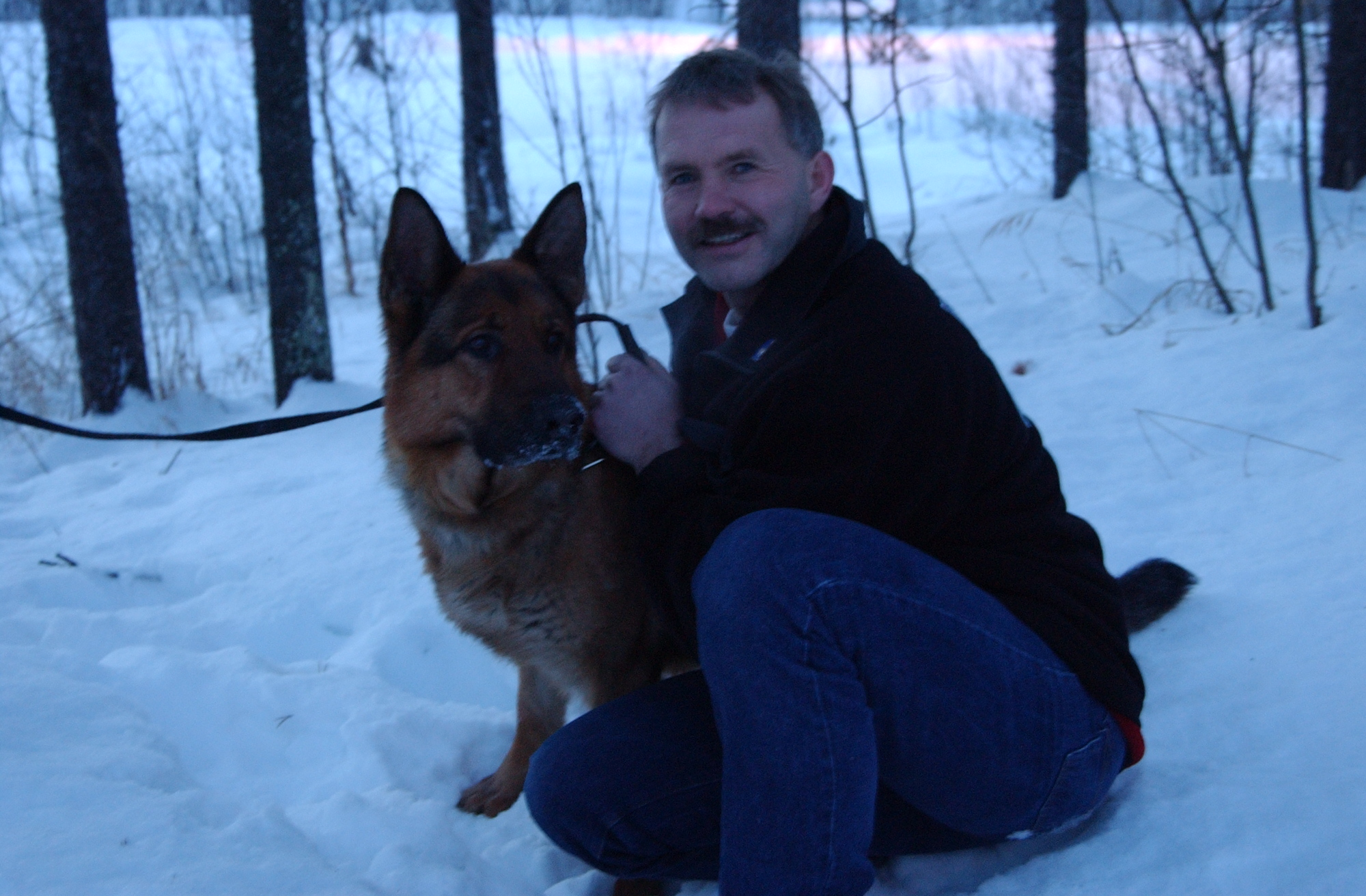 Picture of the norwegian athlete Robert Sørlie. Image has not been modified.